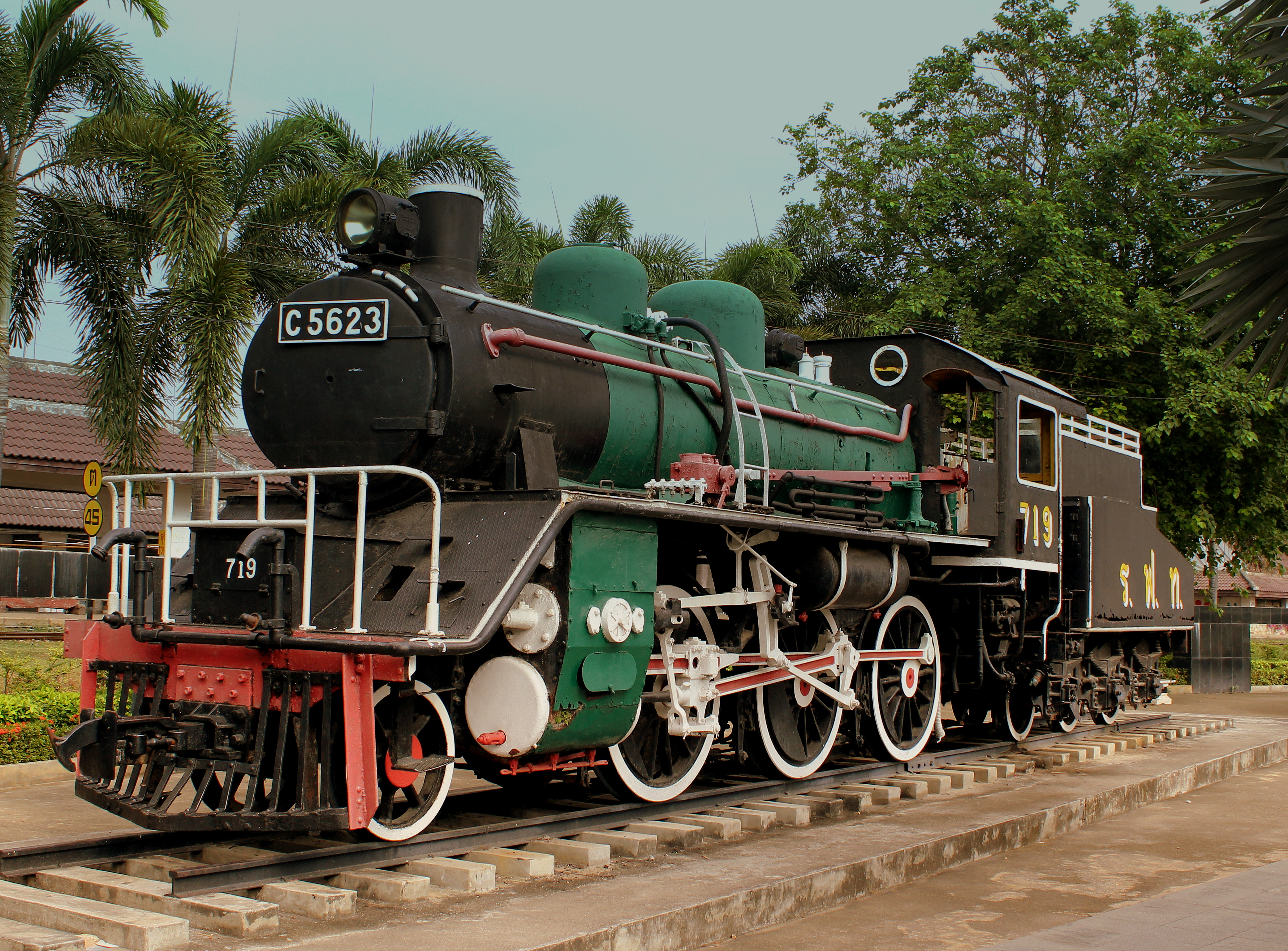 PRESERVED STEAM LOCOMOTIVE USED ON THE DEATH RAILWAY AT THE RIVER KWAI BRIDGE KANCHANBURI THAILAND JAN 2013